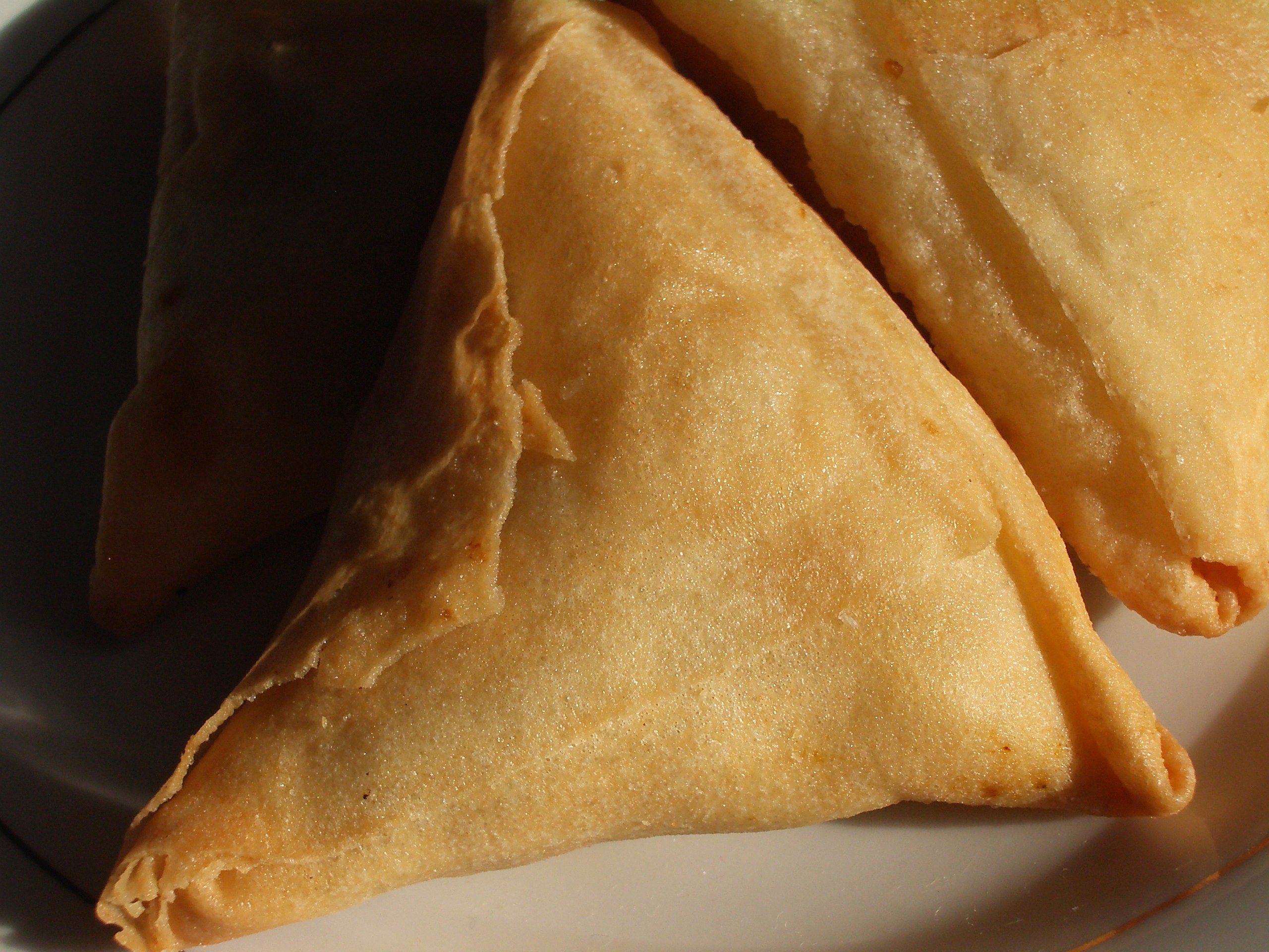 A samosa bought at one of the many Indian and Sri Lankan run eateries in the Parisian neighborhood of La Chapelle (Rue Louis Blanc).